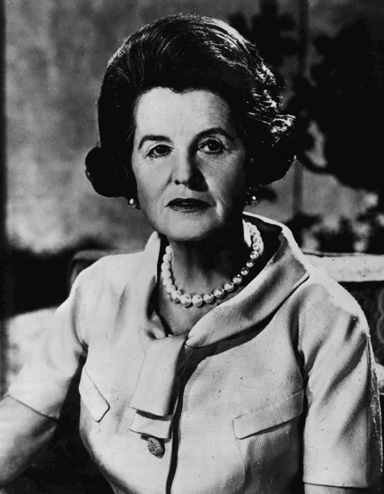 Photo of Rose Kennedy in 1967. This photo comes from a CBS television special "JFK--The Childhood Years. A Memoir for Television By His Mother." The program was taped at the home John F. Kennedy was born in and spent some of his childhood years in: 83 Beals Street, Brookline, Massachusetts. The home is now a National Historic Site. Rose Kennedy assisted in the restoration of the home by sharing her recollections of the house and by donating the furnishings from it which she had stored for many years.